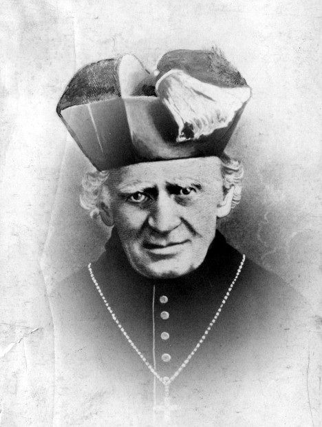 An image of Archbishop Peter Richard Kenrick